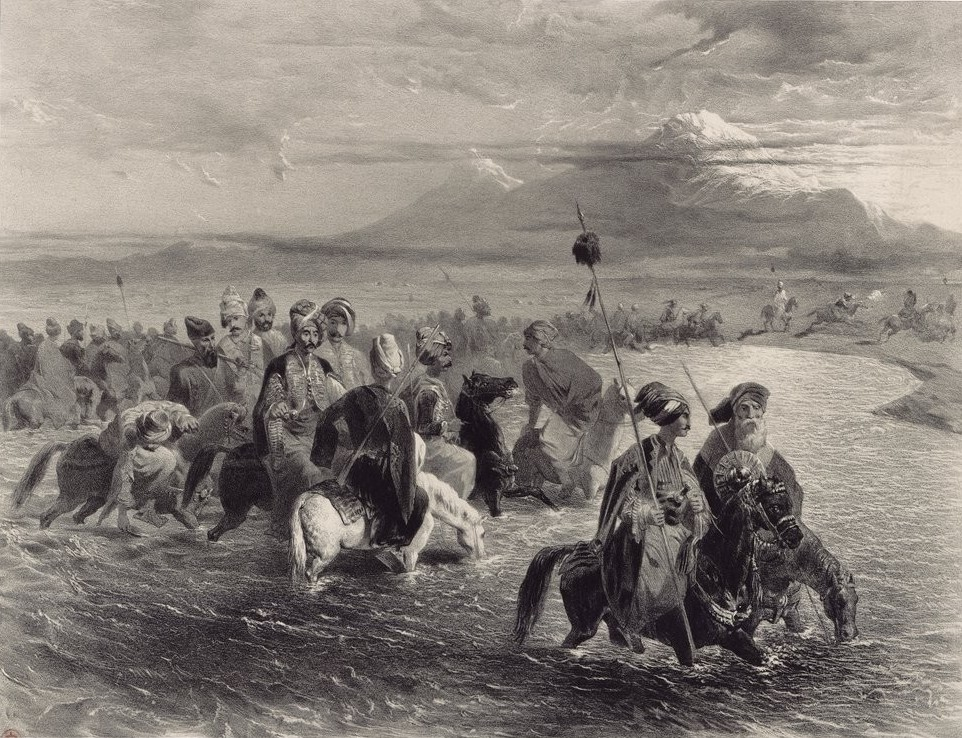 A drawing by the Russian painter Grigory Grigorievich Gagarin (1810-1893) of a young Kurdish notable with his advisor and his tribe while passing through Aras River